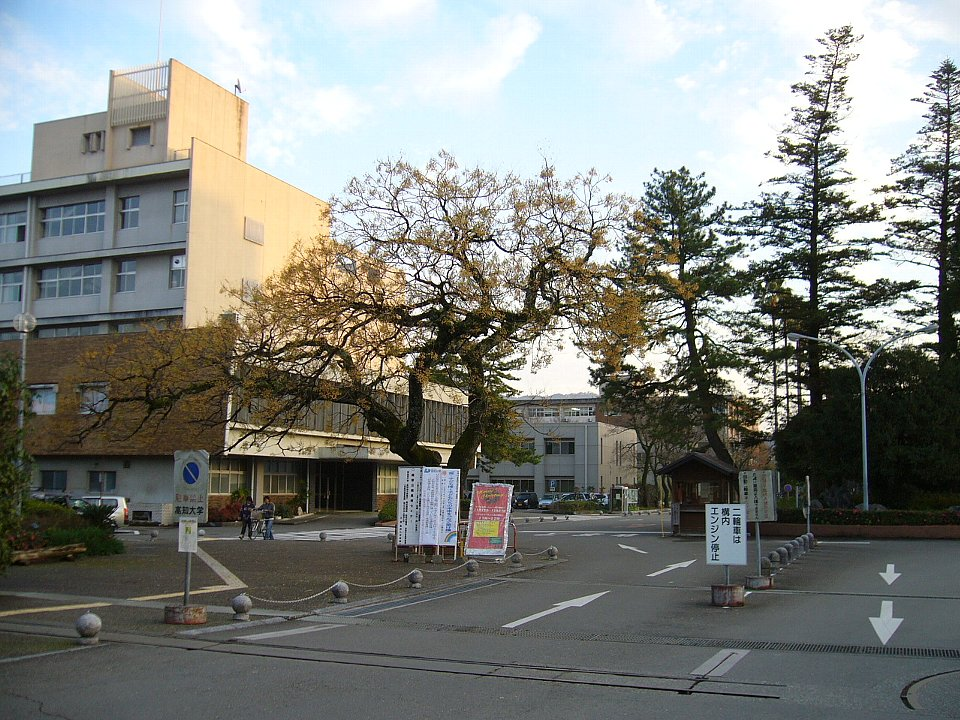 Kochi University Asakura campus